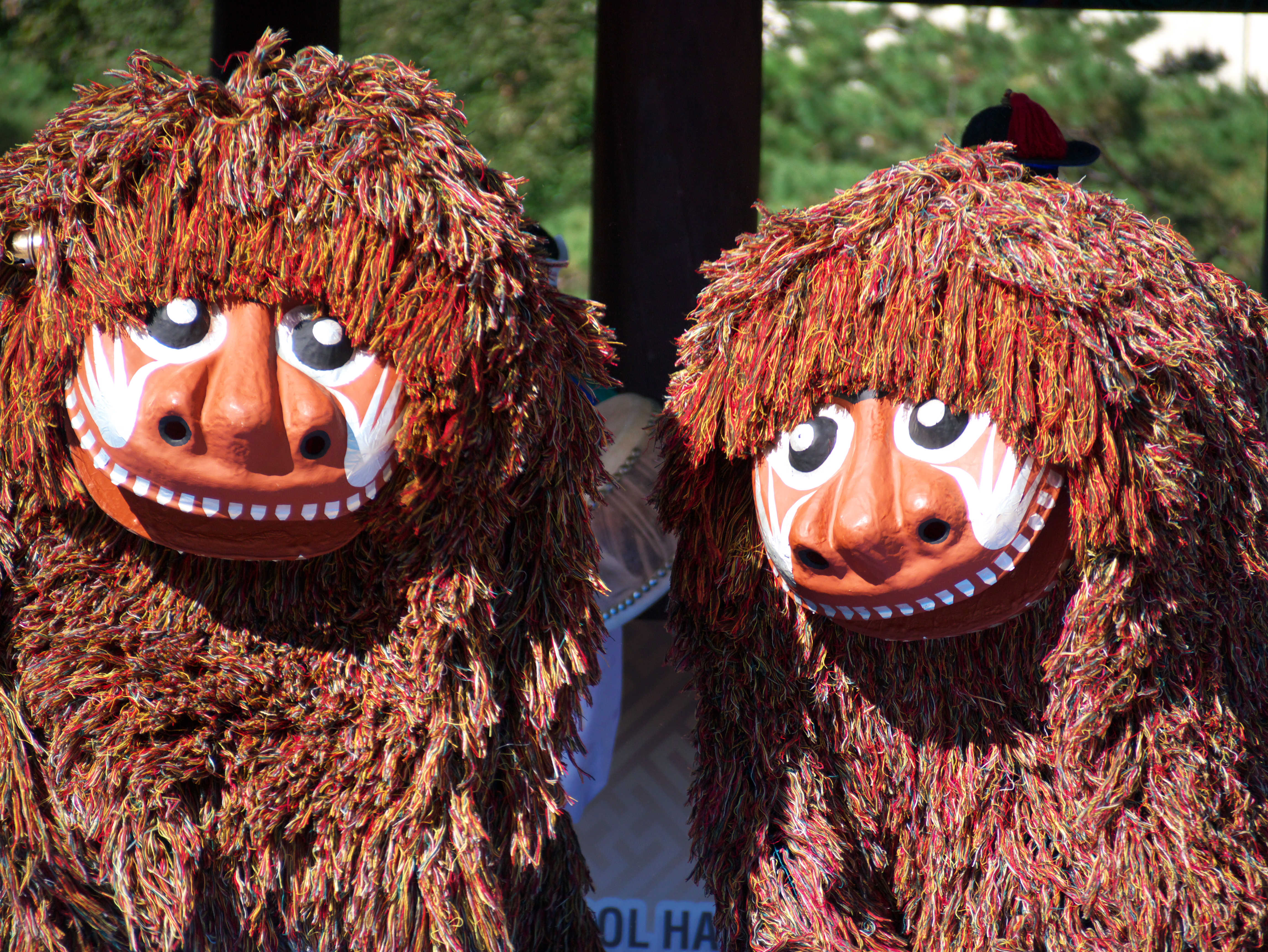 Bukcheong Lion Dance (Euljiro-dong, Seoul, South Korea)